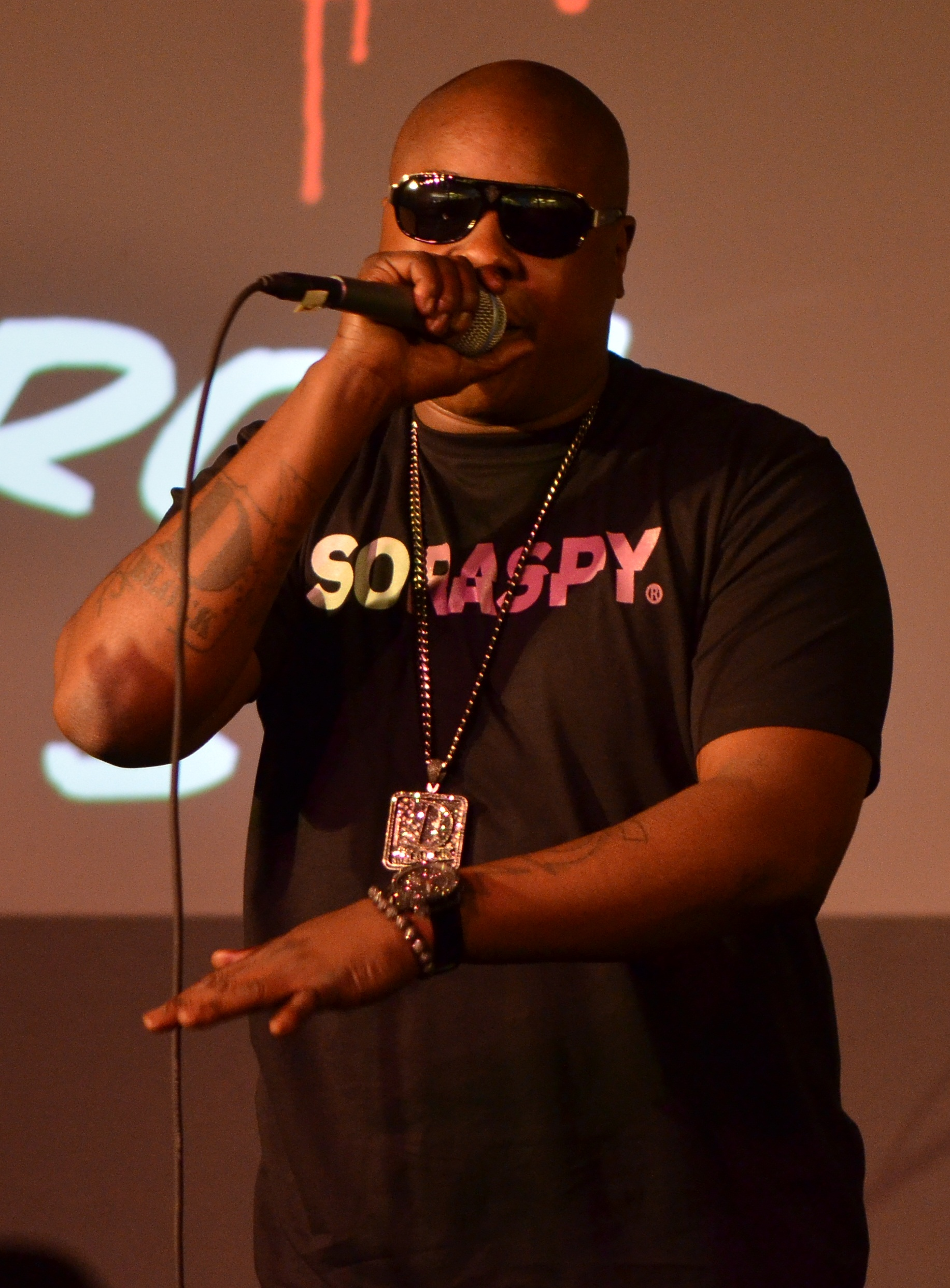 Jadakiss performing live at Apple Store in June 2011.